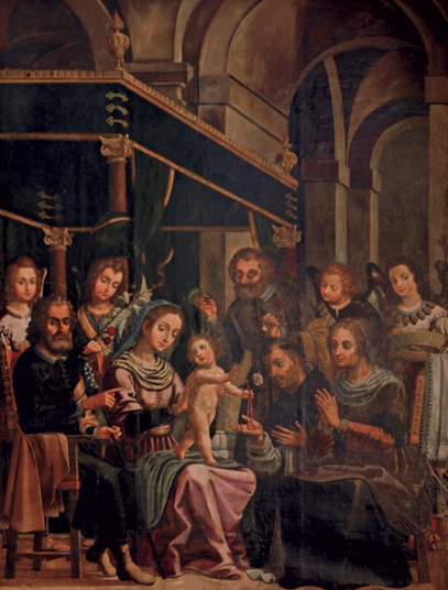 Lecce Pinacoteca Francescana Madonna della Rosa 1648